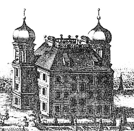 Ammerland castle with Starnberger See (at that time called Wirm See). Kupferstich, Michael Wening, aus Historico topographica descriptio Bavariae, 1701. The castle was built by Caspar Feichtmayr from Wessobrunner Schule by c. 1680. From 1842 until his death in 1876, it was the summer residence of Franz Graf von Pocci, who introduced Kasperle Larifari to puppet theatre by writing some 40 plays.